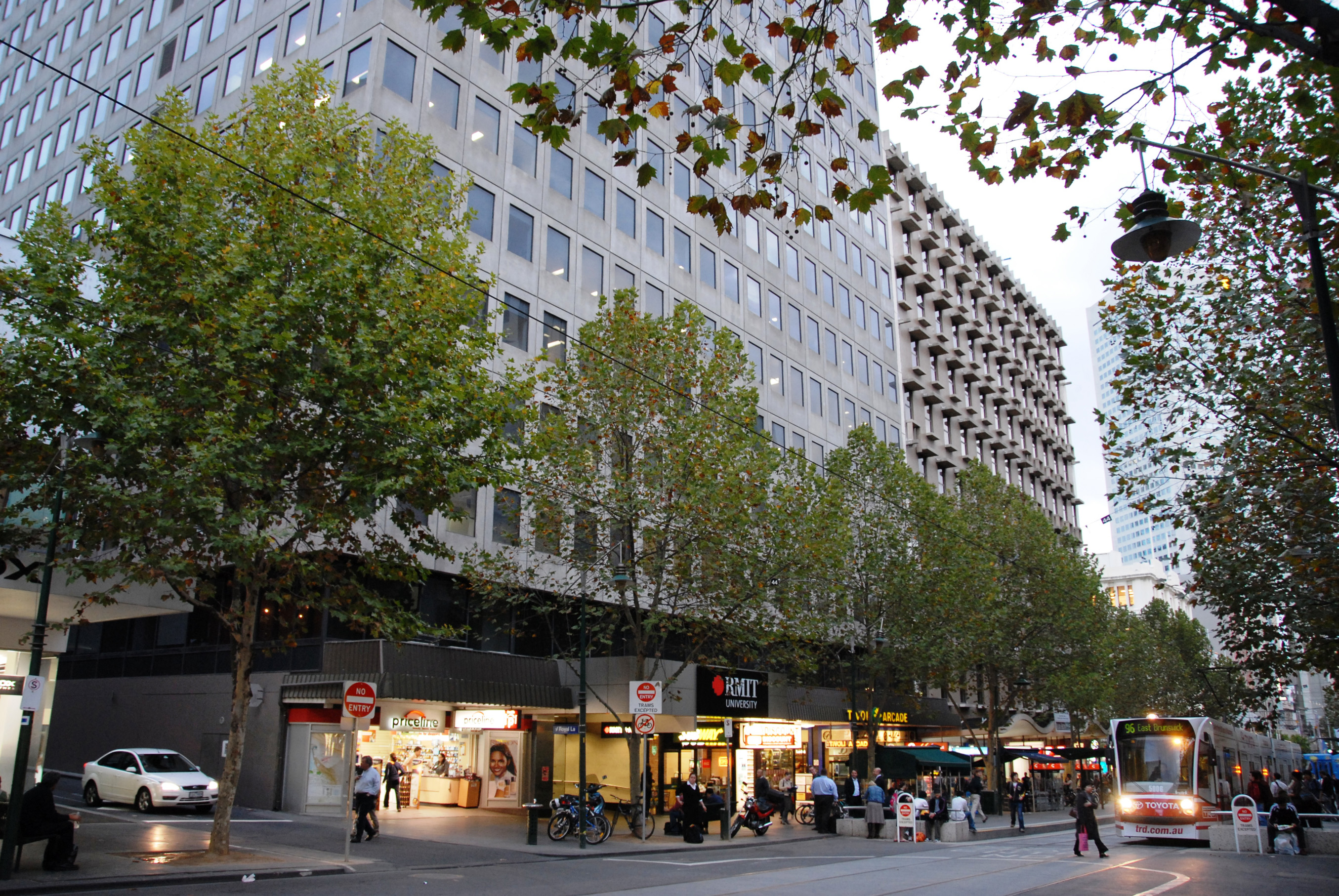 A picture of RMIT's Building 108, at 239 Bourke St Melbourne. This 16 storey (level 2 is the ground floor) building houses the Business Portfolio, and was built in 1969[1].